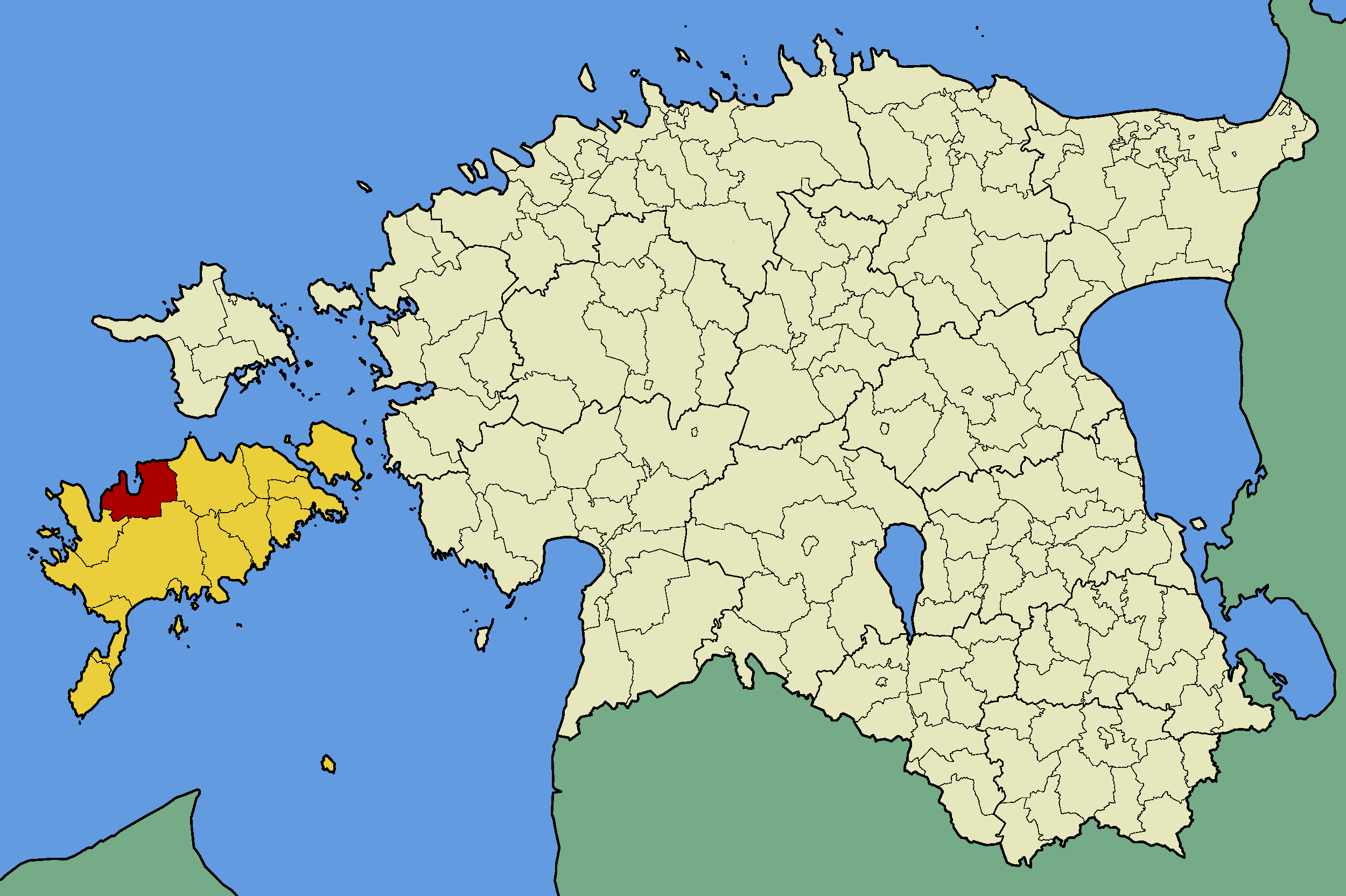 Map of Estonia with borders of municipalities (parishes). Saare county and Mustjala municipality emphasized.